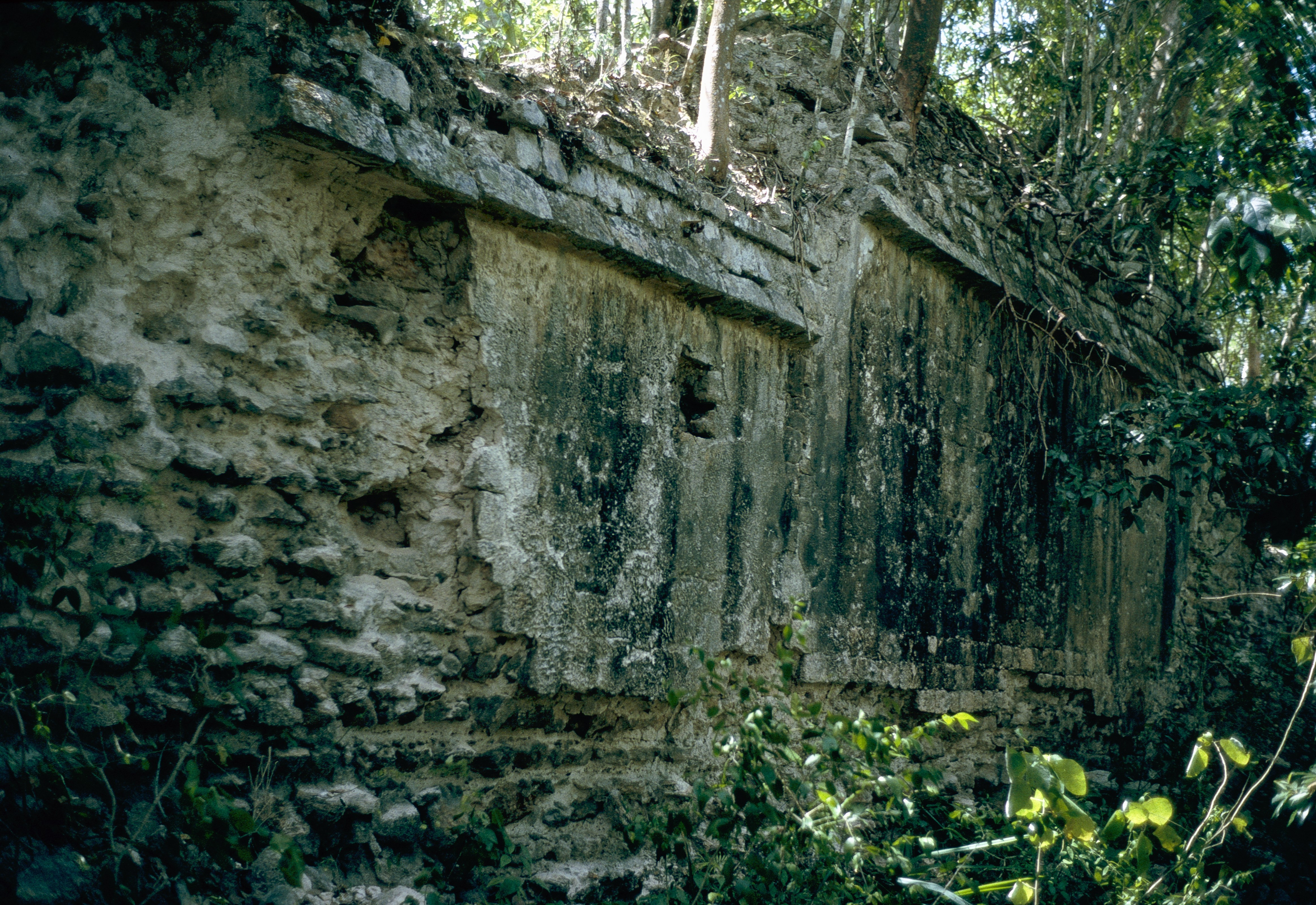 Witzinah, Yucatan, Mexico: building 4, rear facade